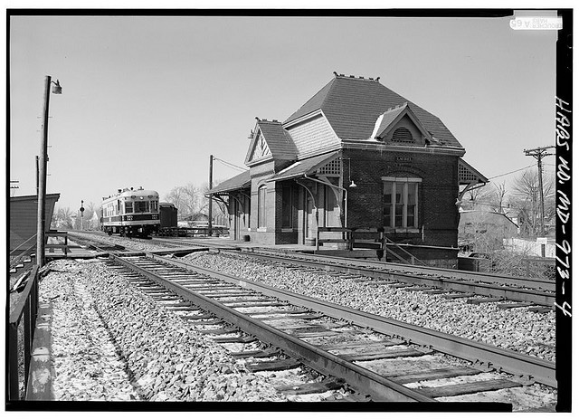 Baltimore & Ohio Railroad station, Laurel, Maryland